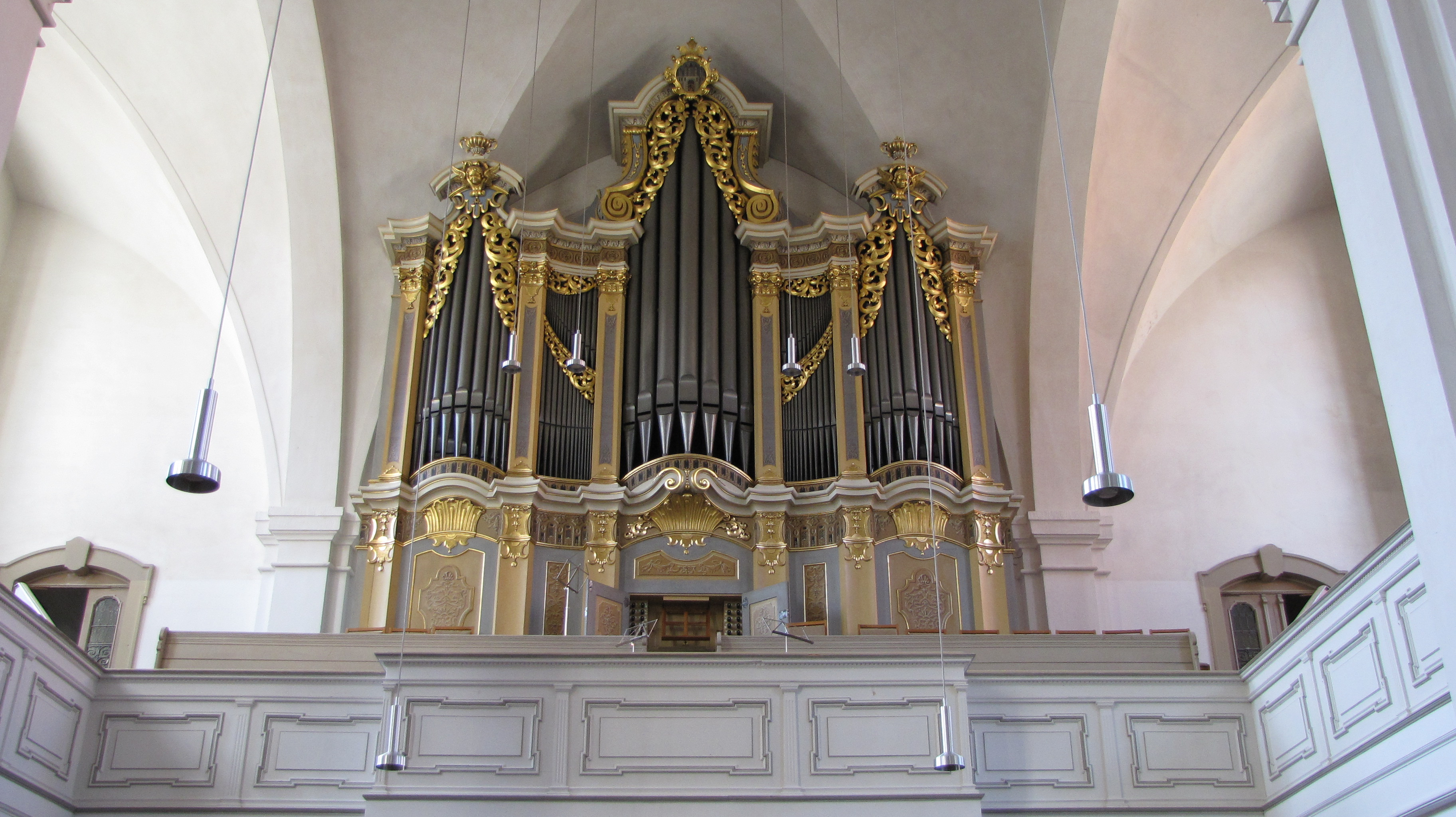 Silbermann Organ in St. Petri Freiberg